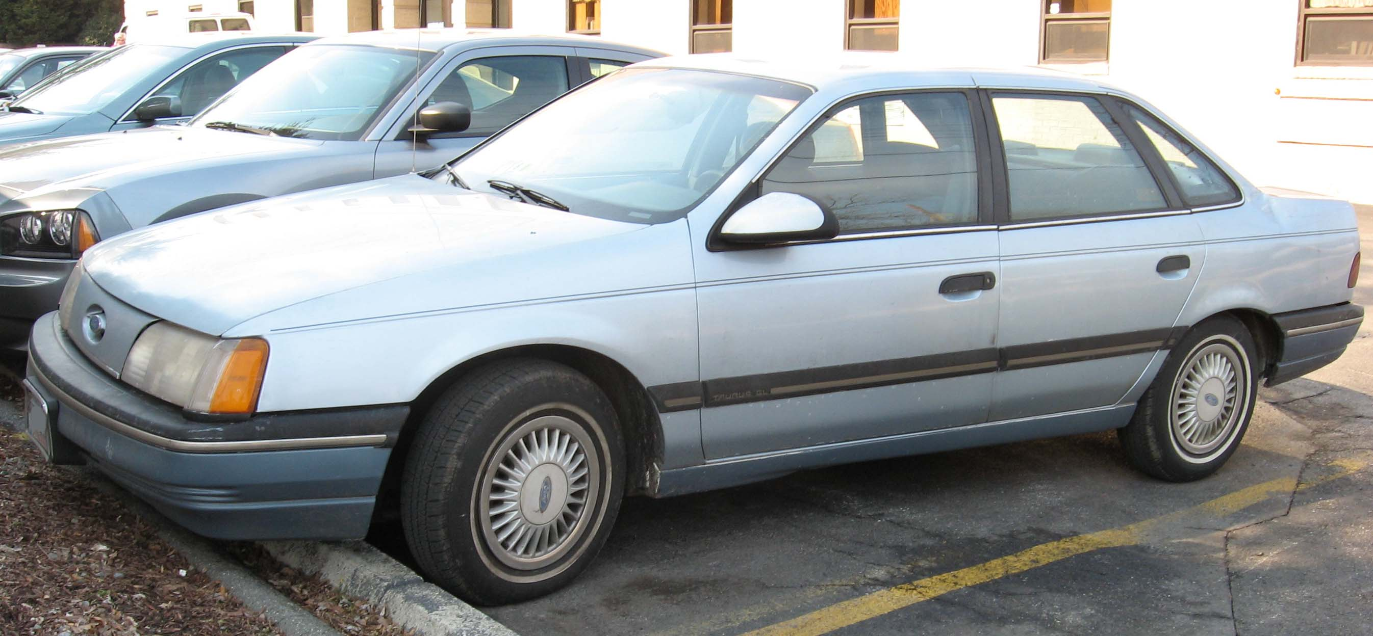 1986-1988 Ford Taurus photographed in USA.